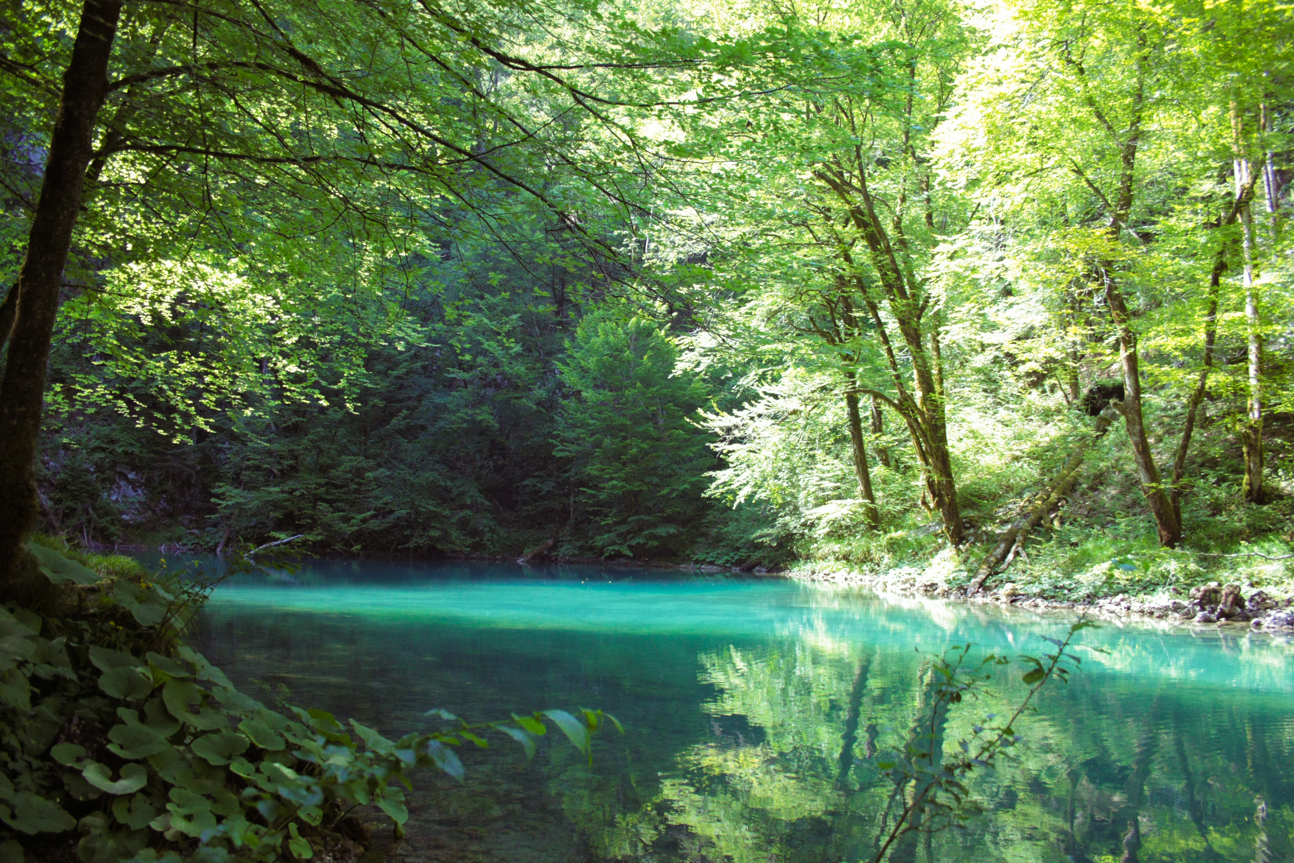 The incredibly beautiful source of the Kupa River in Risnjak. NP07